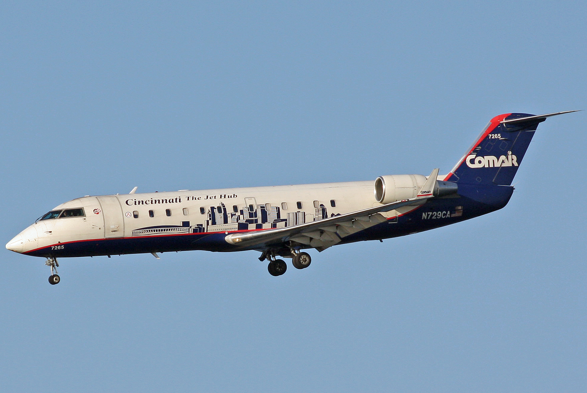 Represented in "Cincinnati The Jet Hub" Color Scheme